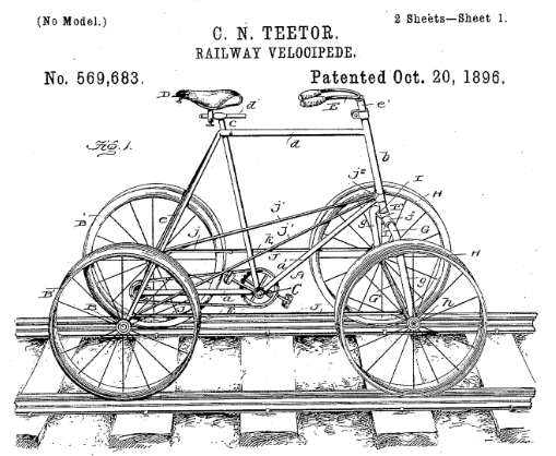 Image from patent